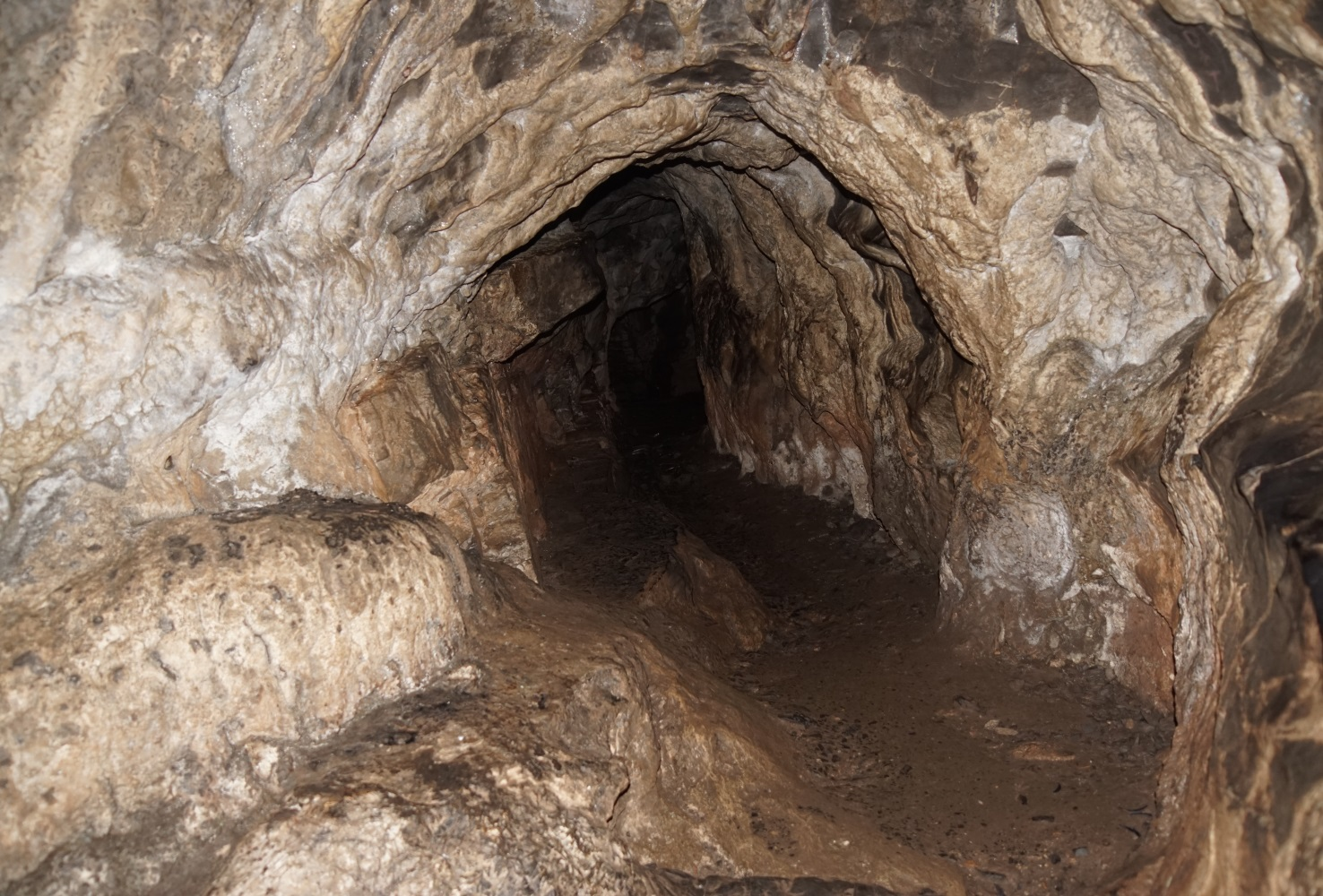 Carreg Cennen Castle, Wales. Passage to cave.